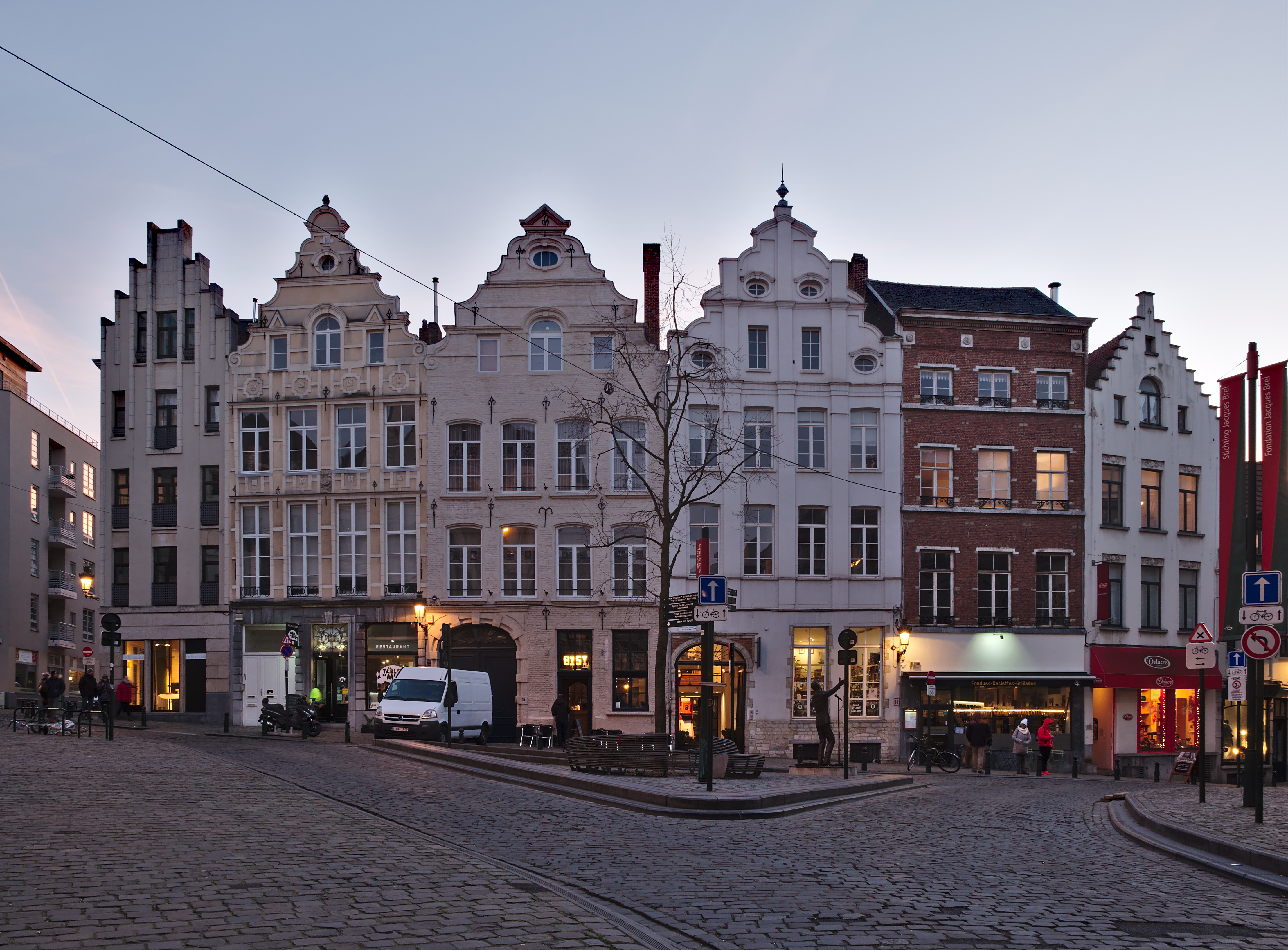 Place de la Vieille Halle aux Blés (looking South-West) during the evening civil twilight in Brussels, Belgium